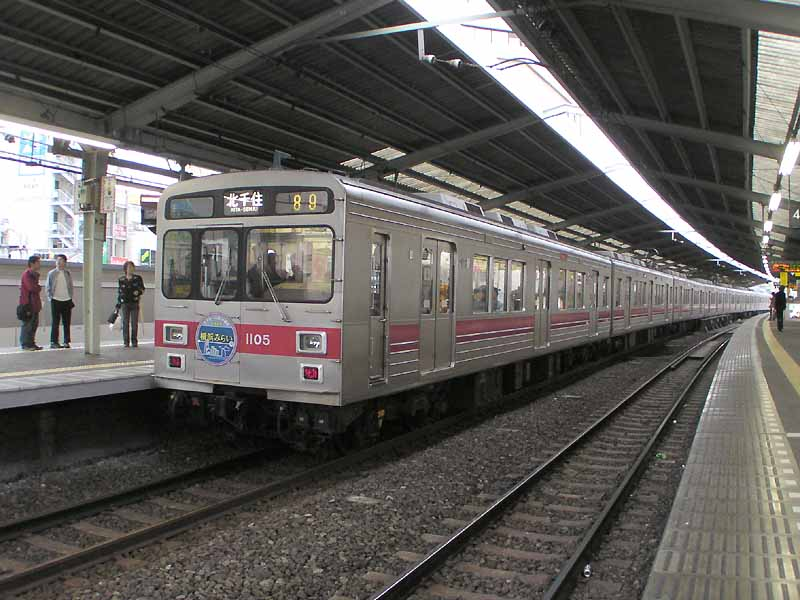 Tokyu railways special train "Yokohama Mirai Go". Operated in between Kita-senju and Motomachi-Chukagai. In this summer, it progressed to "Minatomirai-go". Place: Jiyugaoka station: Setagaya, Tokyo Japan.